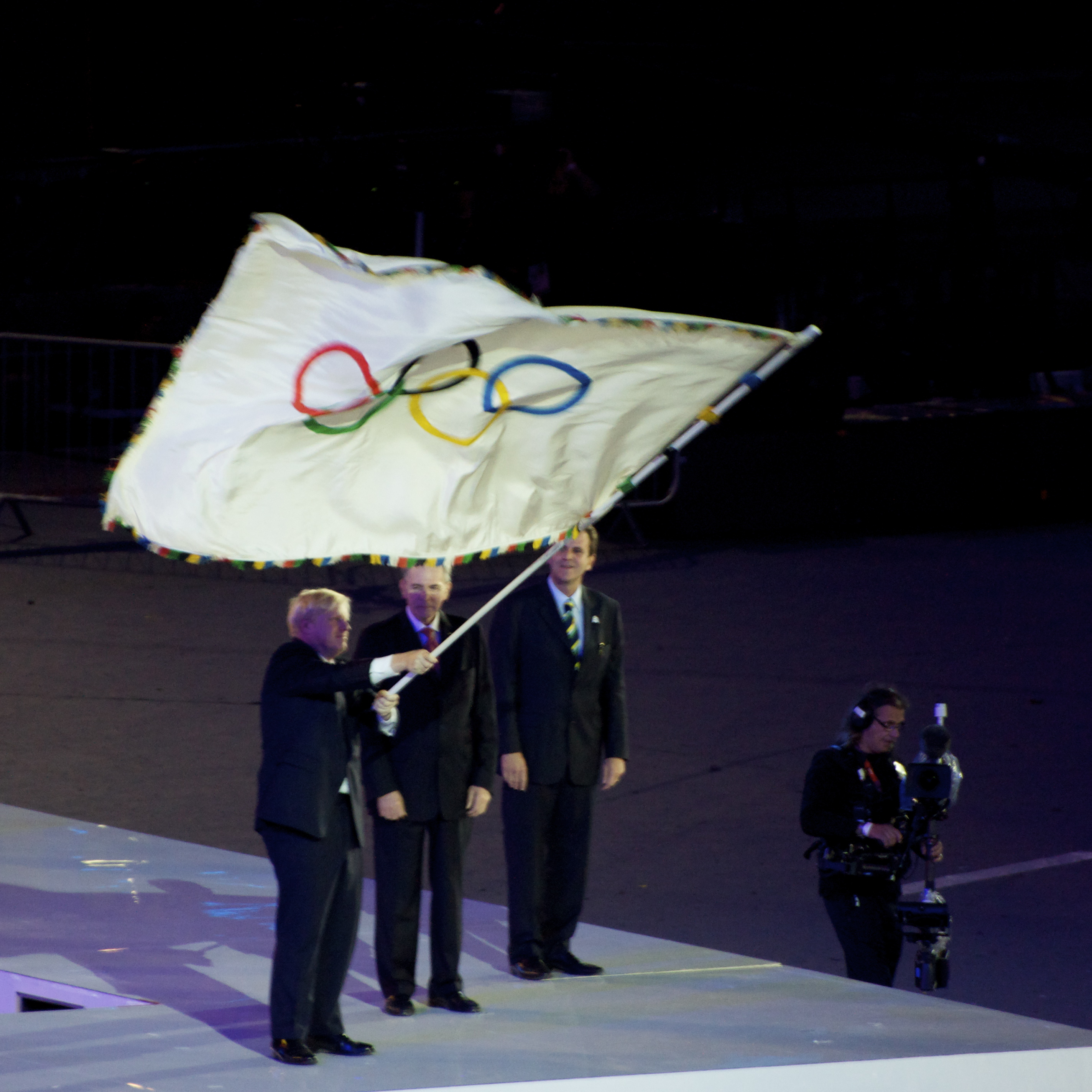 Boris Johnson waves the Olympic flag Jacques Rogge and Eduardo Paes look on.